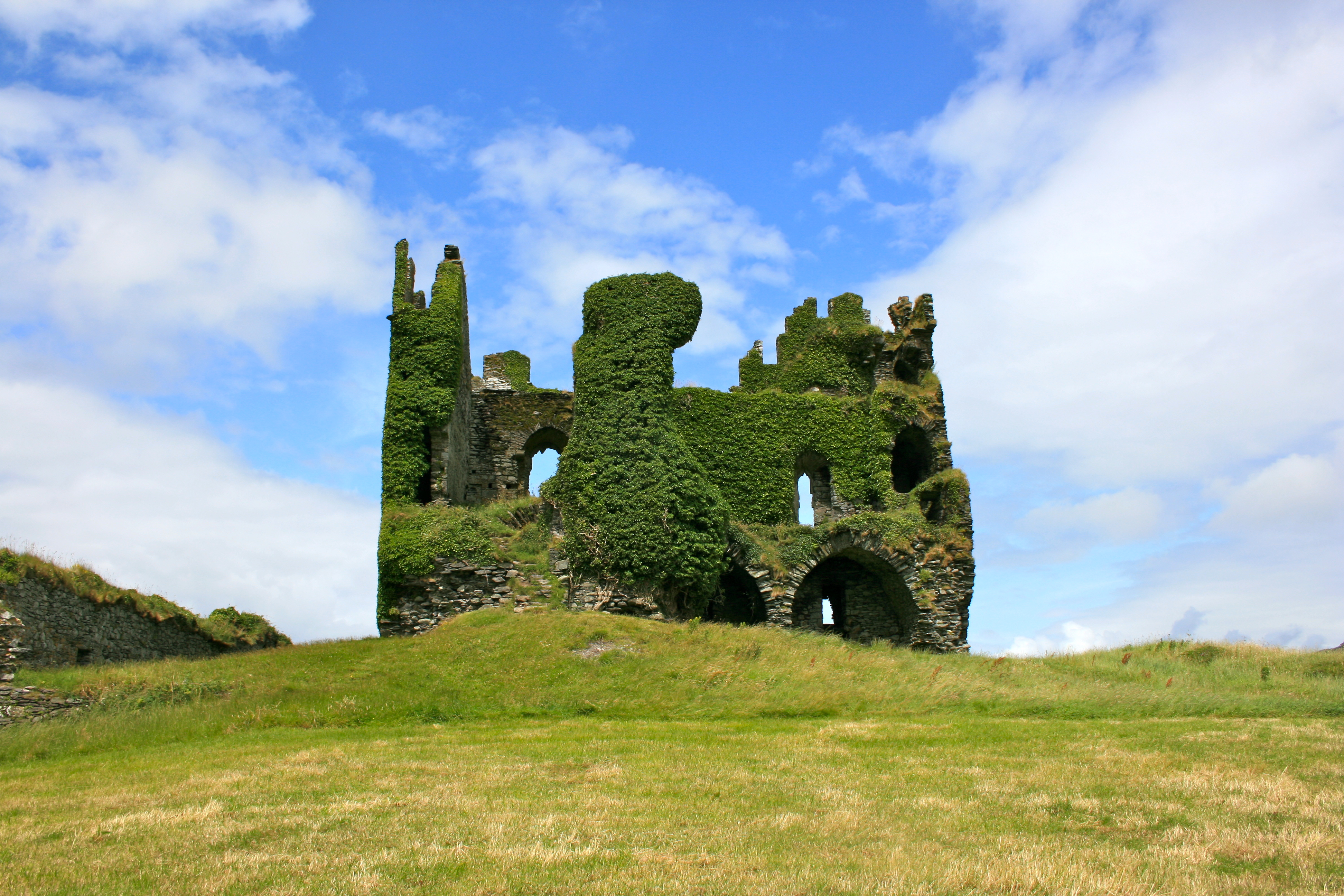 Ballycarbery Castle